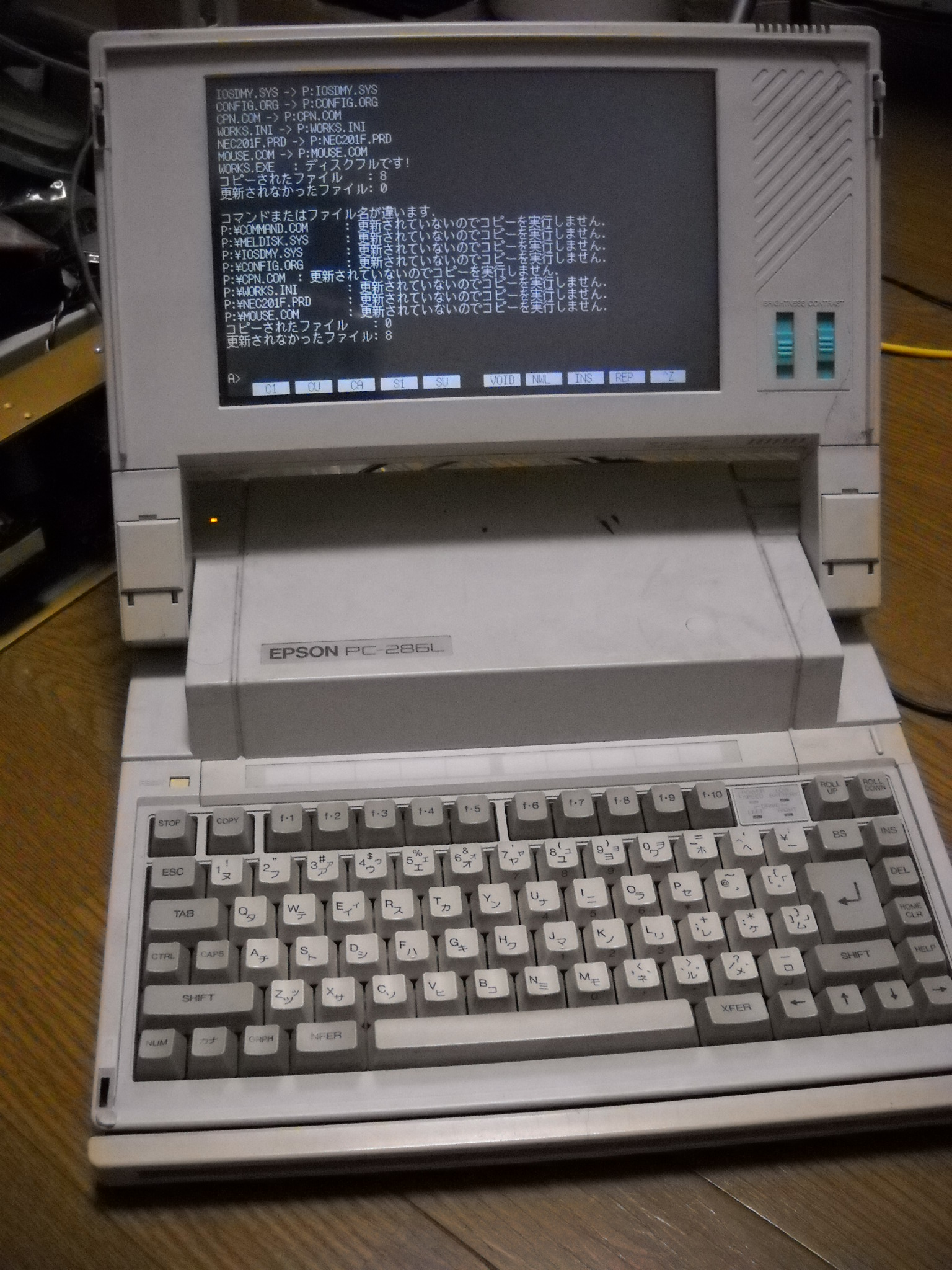 Epson PC-286L laptop computer released for Japanese personal computer market in 1987.